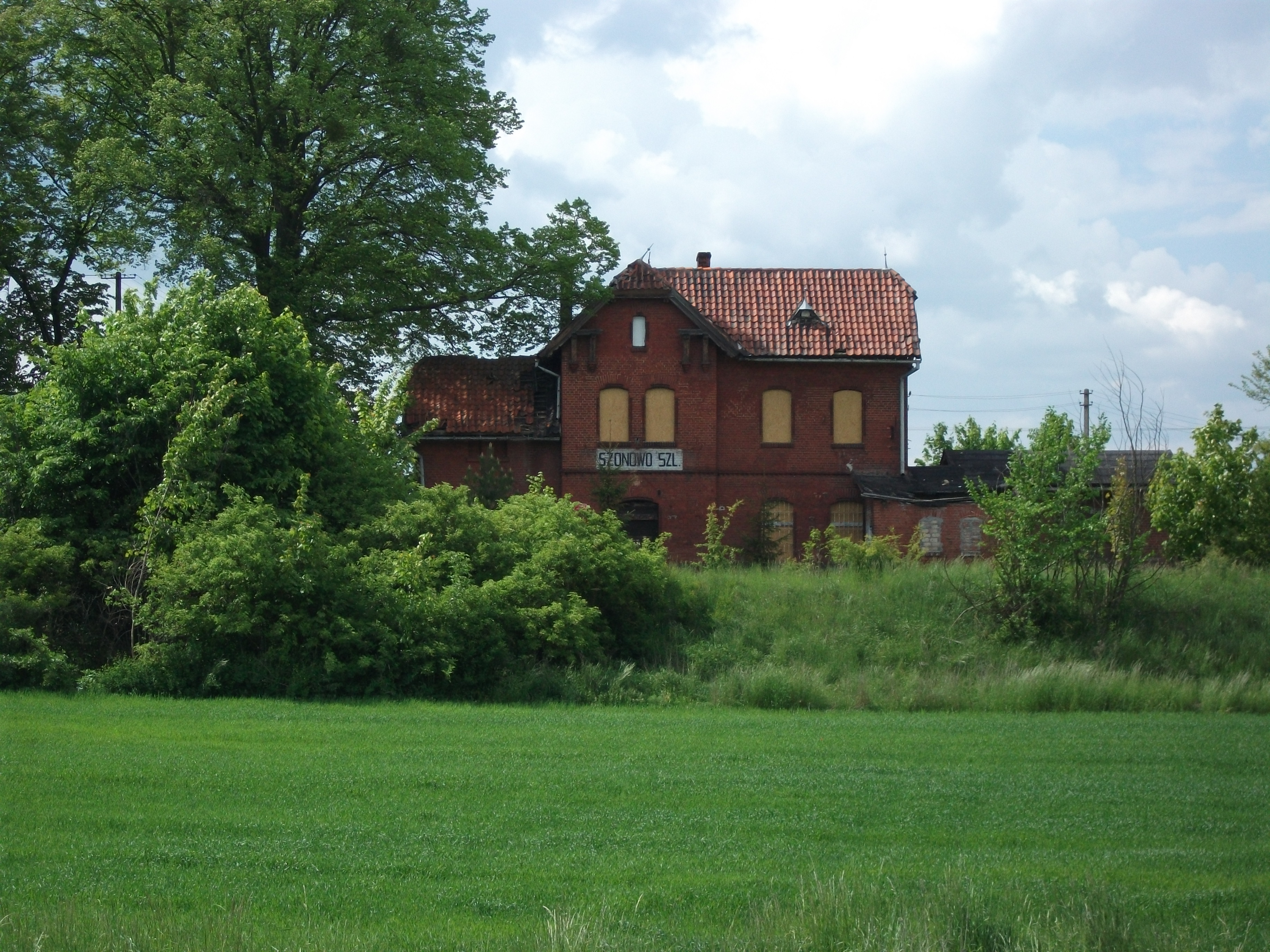 Railway station in Plesewo village in Poland